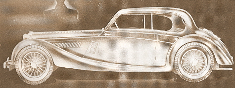 1939 Atalanta V-12 4.3 litre